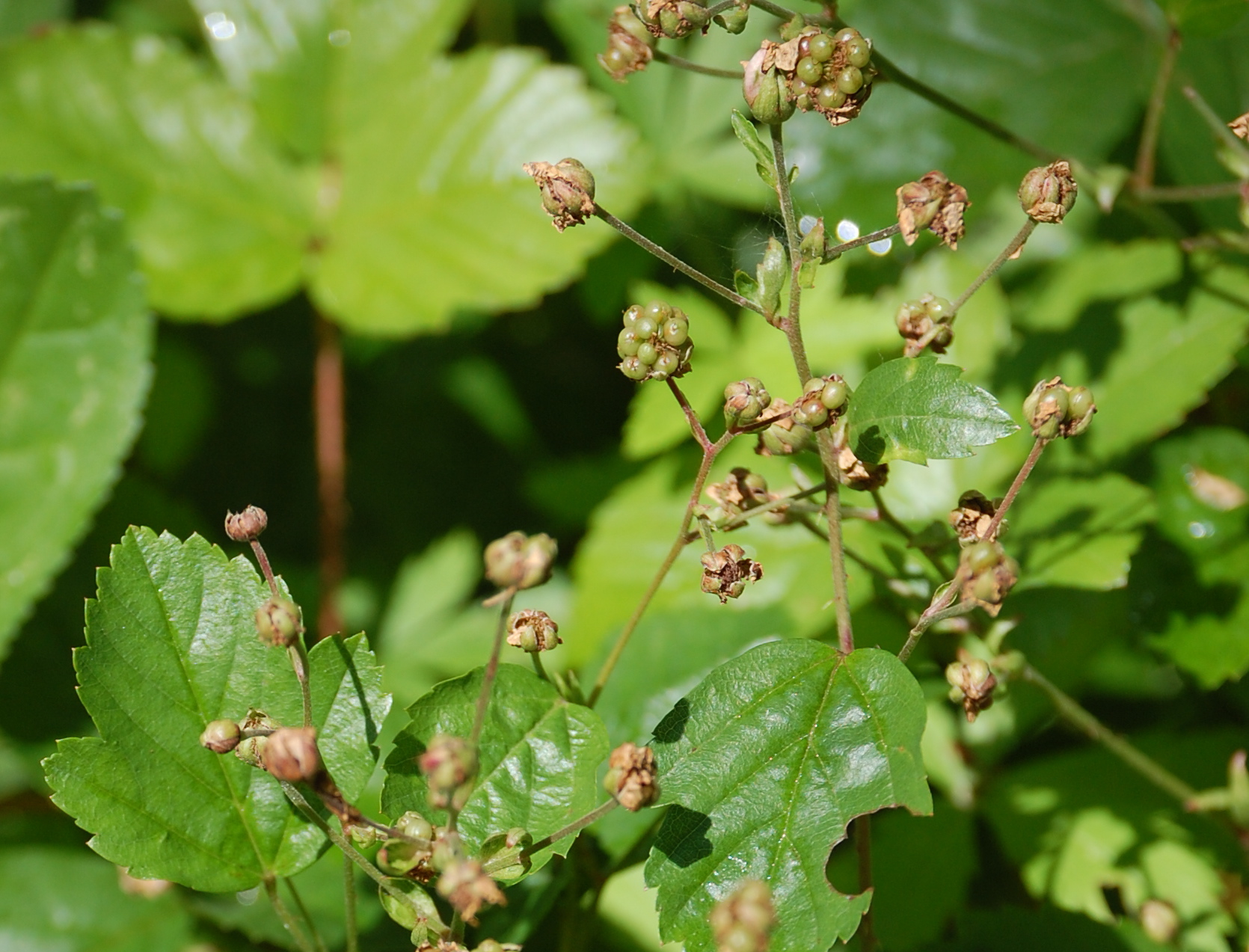 Swamp dewberry (Rubus hispidus) in the Wild Gardens exhibit by the Nature Center in Acadia National Park, Maine.